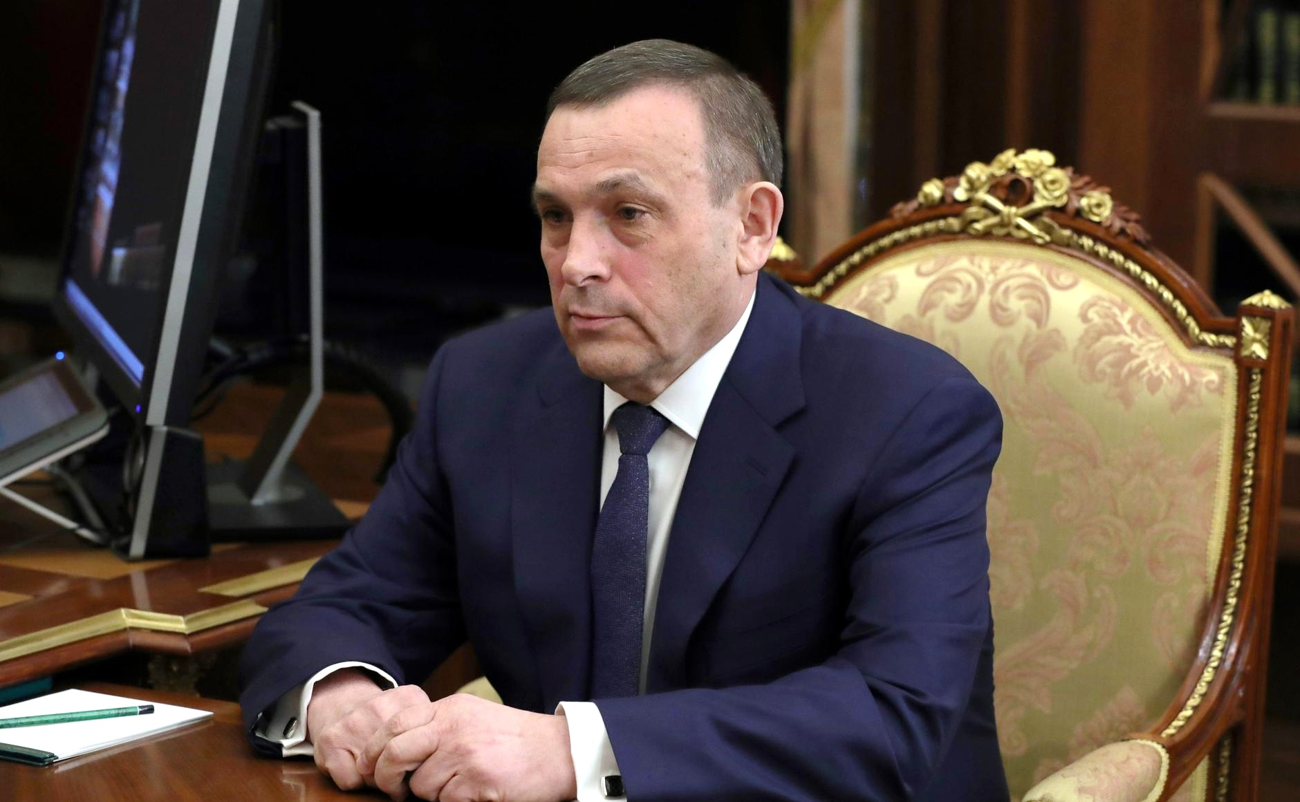 Meeting Vladimir Putin with Alexander Yevstifeyev 2017-04-06